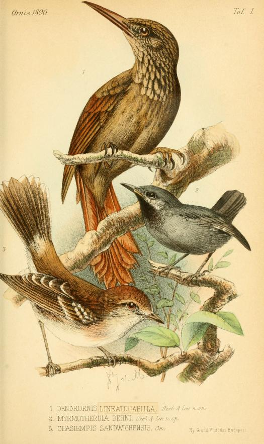 Fig1: Dendrornis lineatocapilla = Xiphorhynchus ocellatus lineatocapillus Fig2: Myrmotherula behni Fig3: Chasiempis sandwichensis